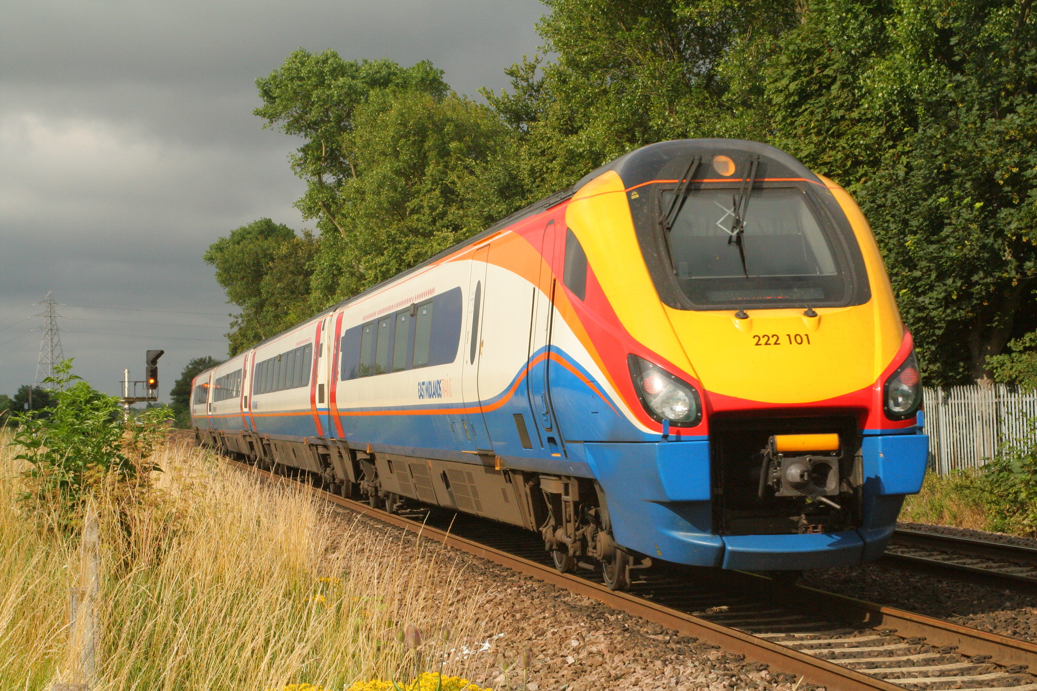 222101, which must have terminated at Nottingham Midland, returning back to St Pancras.